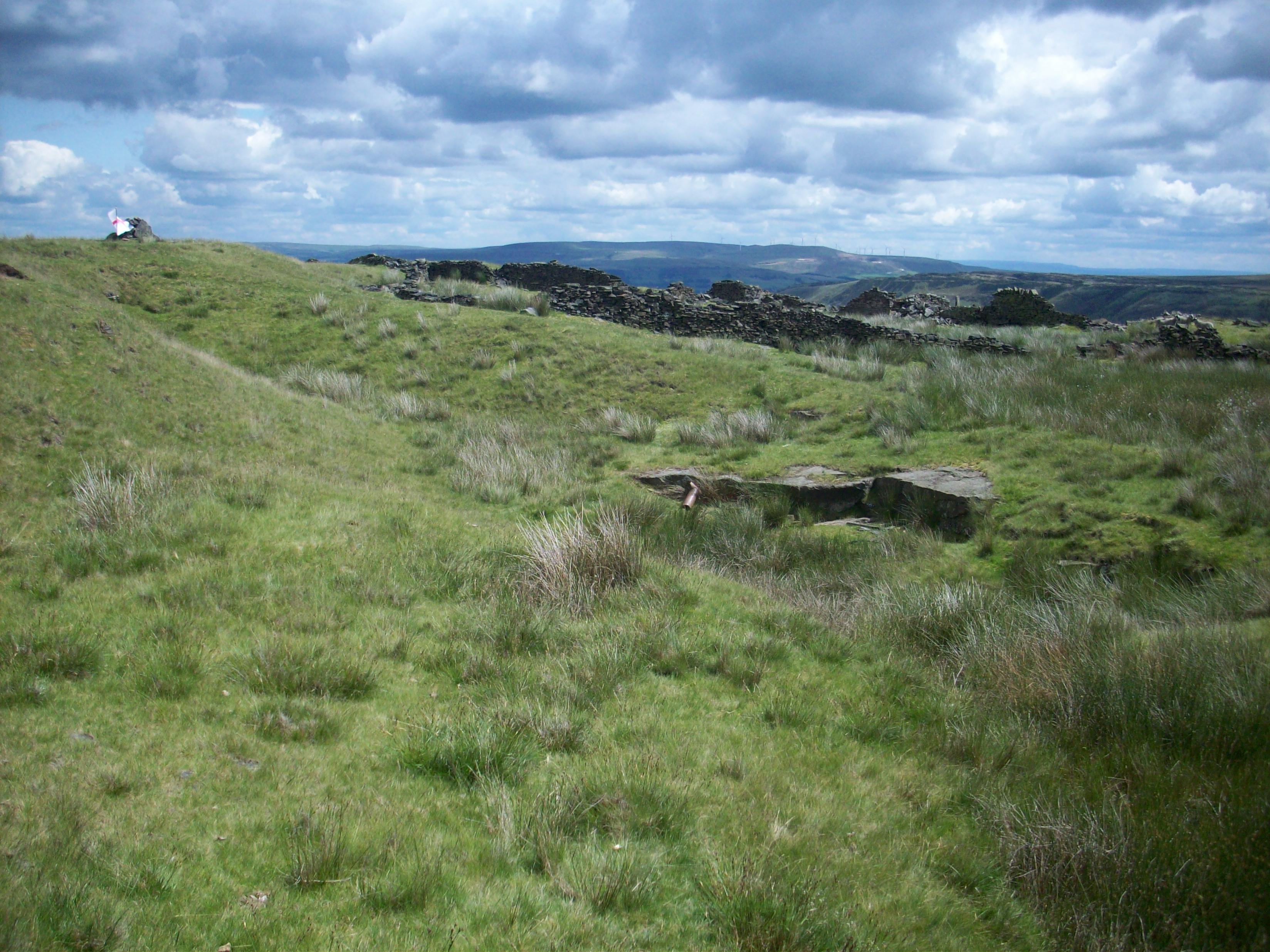 A photo of Oswaldtwistle Moor, Lancashire in June 2011. The moorland is to the south of Oswaldtwistle and borders Haslingden Moor, which is to the East. Oswaldtwistle Moor is part of the West Pennine Moors.